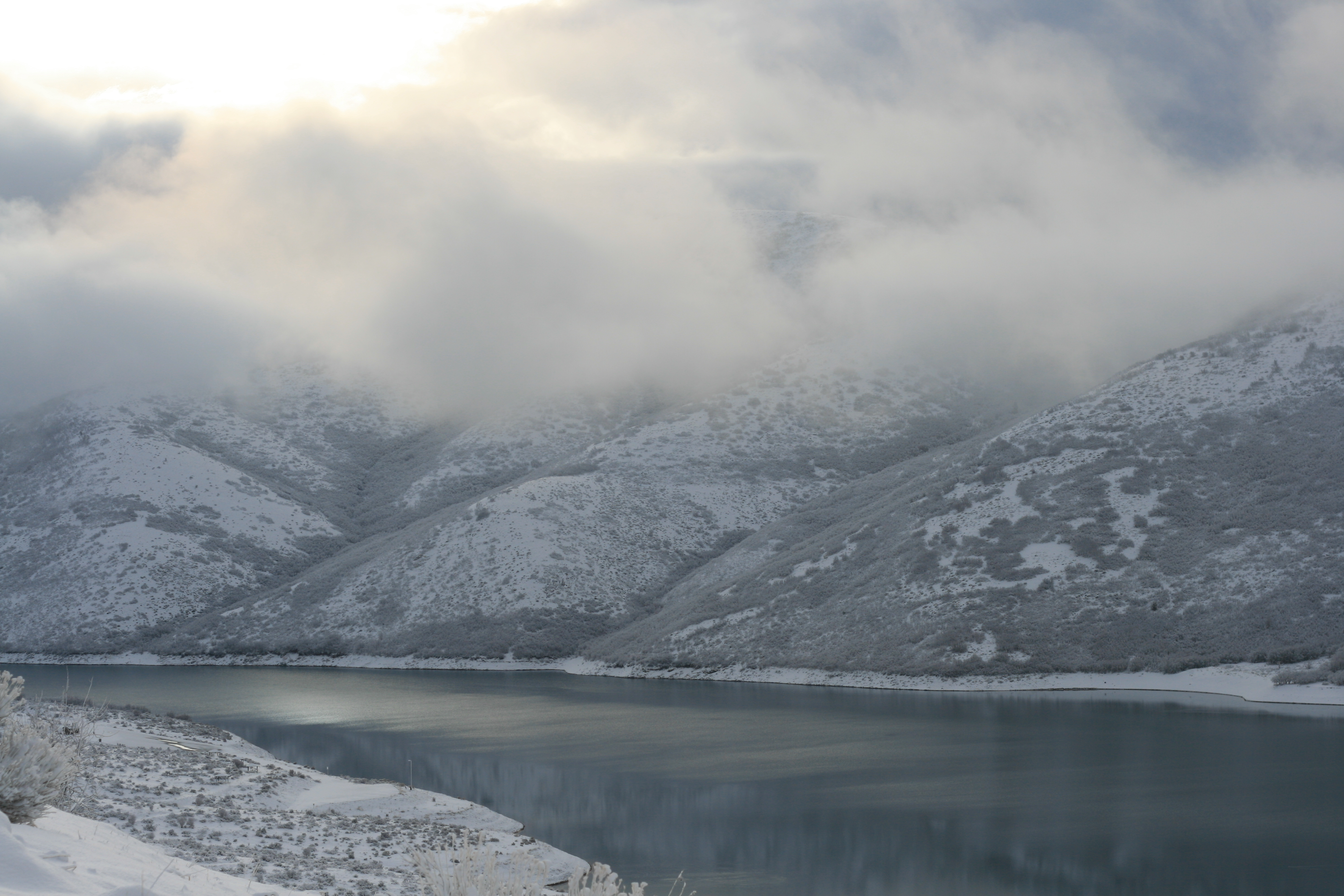 Little Dell Reservoir after an April snowstorm